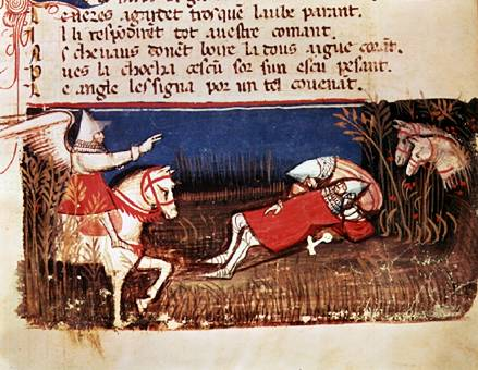 14th Century Manuscript of the Chanson de Roland